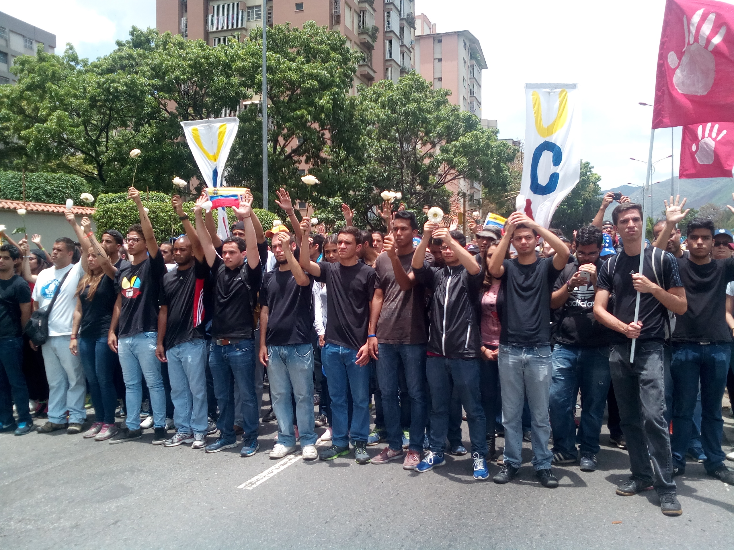 March of Silence in Venezuela, 22 April, 2017